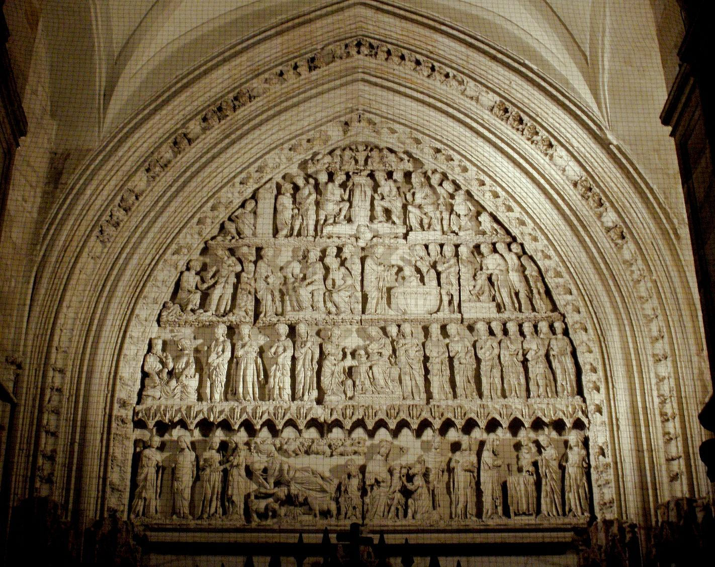 Pórtico Viejo de la iglesia de San Pedro Apóstol, Vitoria-Gasteiz (Álava, País Vasco, España)